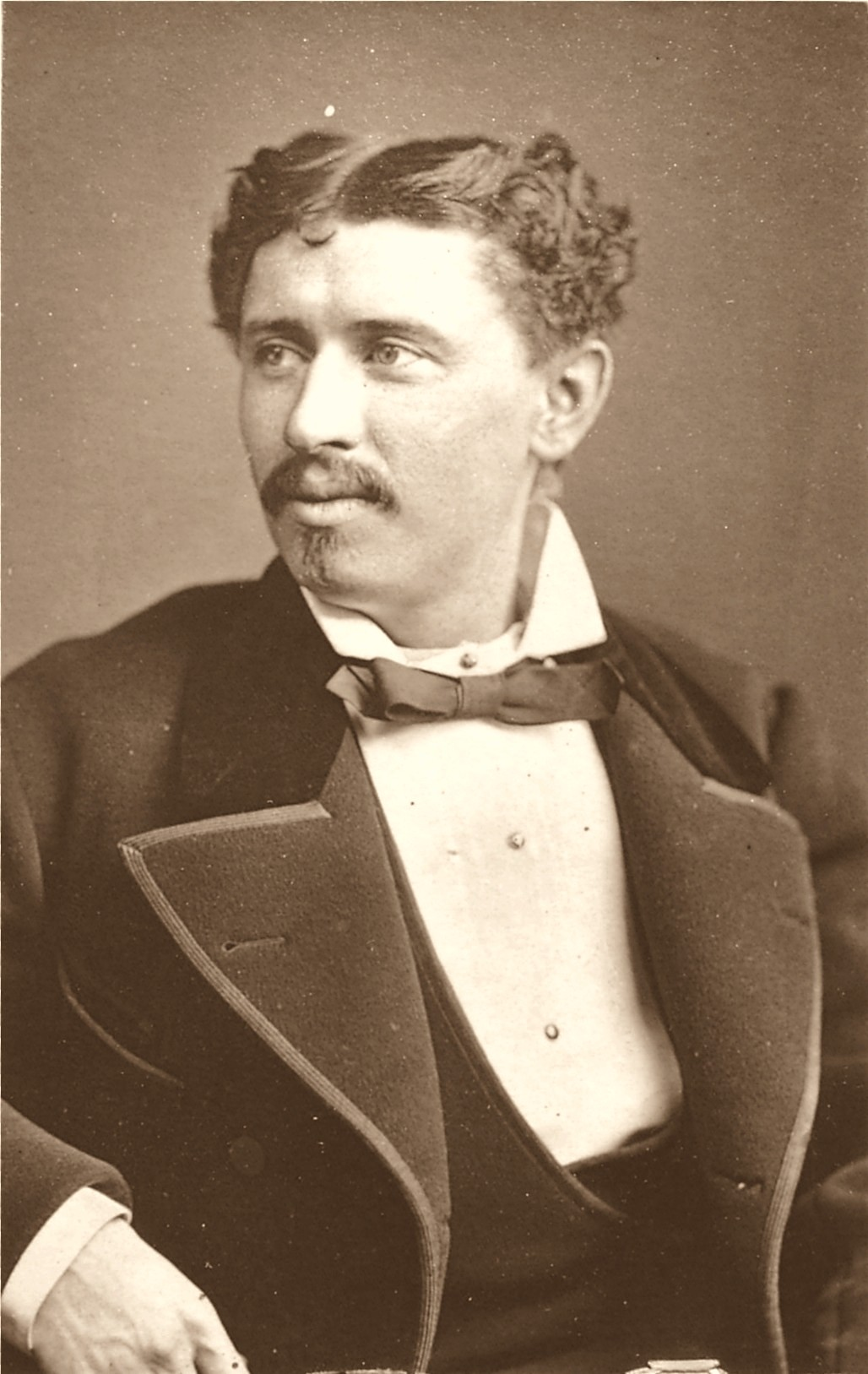 Frederick Mortimer Vokes 1846-1888, Vokes Family, English Actor and Dancer.